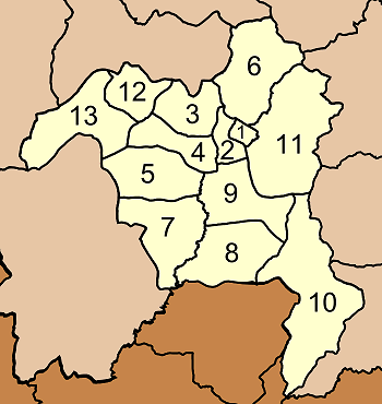 Map of Thung Song district, Nakhon Si Thammarat province, Thailand, with the communes (tambon) numbered. Pak Phraek (ปากแพรก) Cha Mai (ชะมาย) Nong Hong (หนองหงส์) Khuan Krot (ควนกรด) Na Mai Phai (นาไม้ไผ่) Na Luang Sen (นาหลวงเสน) Khao Ro (เขาโร) Ka Pang (กะปาง) Thi Wang (ที่วัง) Namtok (น้ำตก) Tham Yai (ถ้ำใหญ่) Na Pho (นาโพธิ์) Khao Khao (เขาขาว)